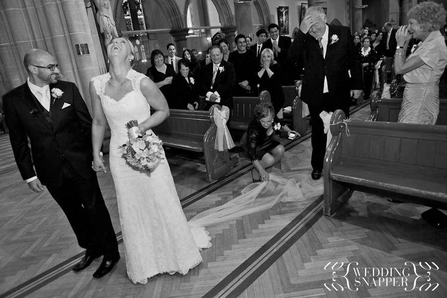 Wedding photograph: the bride's father stands on the bride’s veil in the church